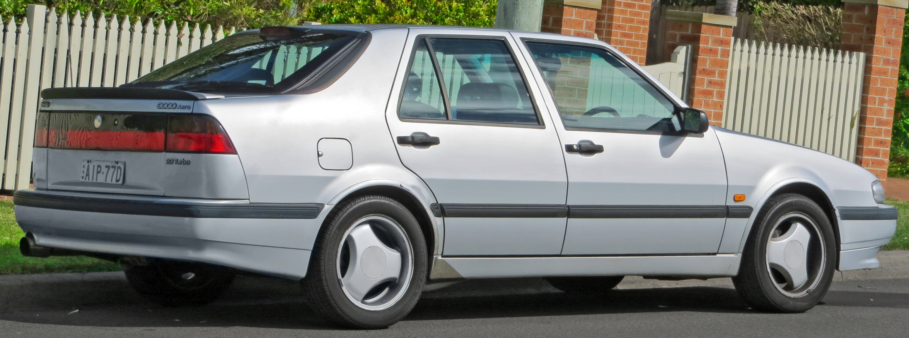 1997 Saab 9000 Aero 2.3 Turbo hatchback. Photographed in Cronulla, New South Wales, Australia.